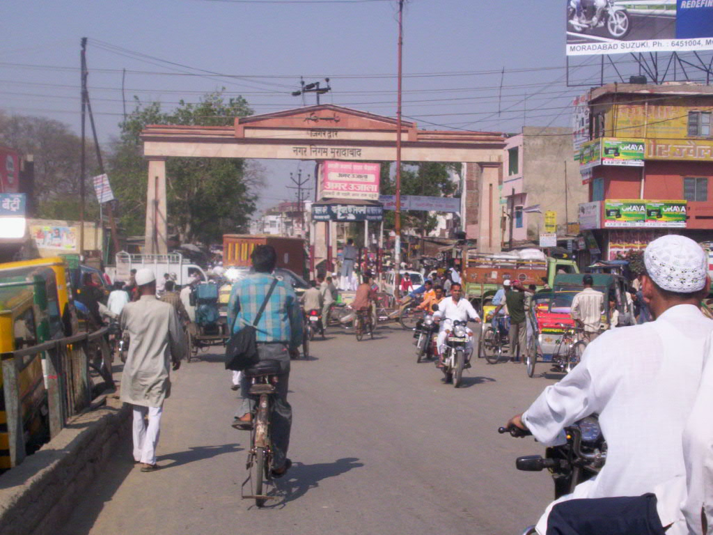 Uploaded by Saud Iqbal 23:23, 23 March 2007 (UTC) for use in wikipedia.)